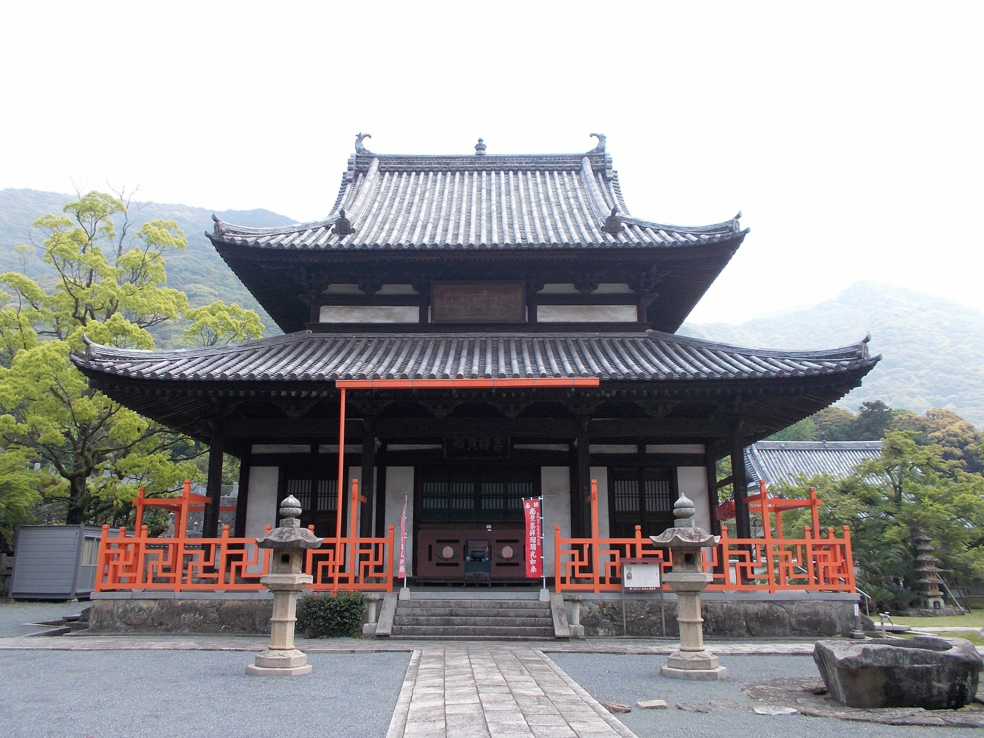 The Buddha Hall of Fukuju-ji, an Obaku temple in Kokurakita-ku, Kitakyushu, Fukuoka, Japan